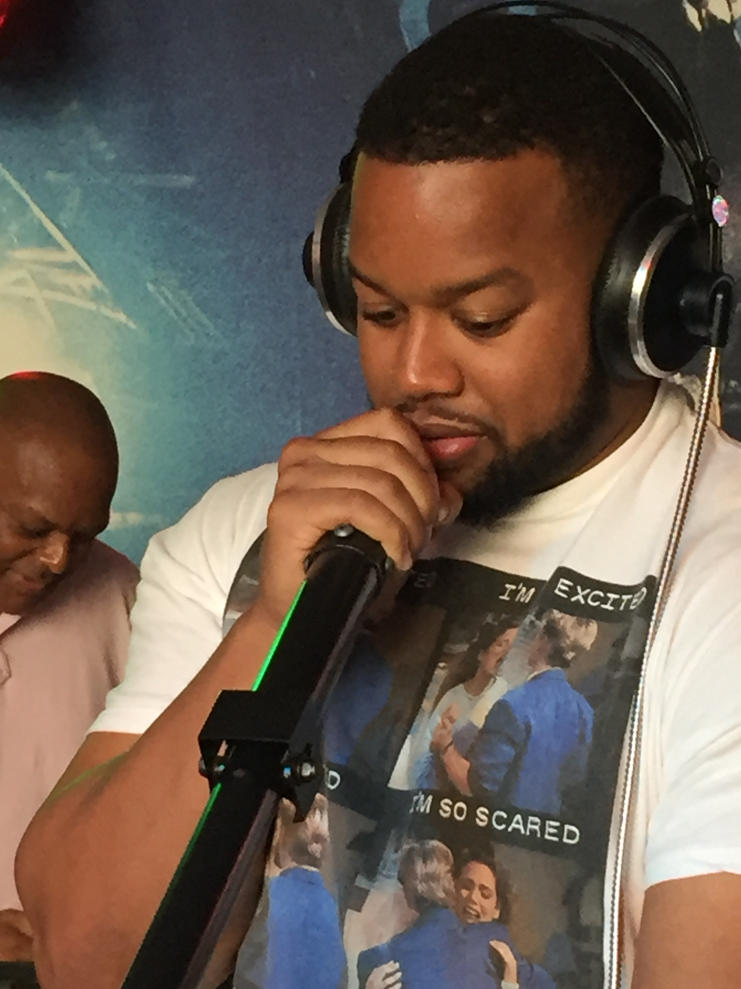 Dorian Performing in Los Angeles in 2016